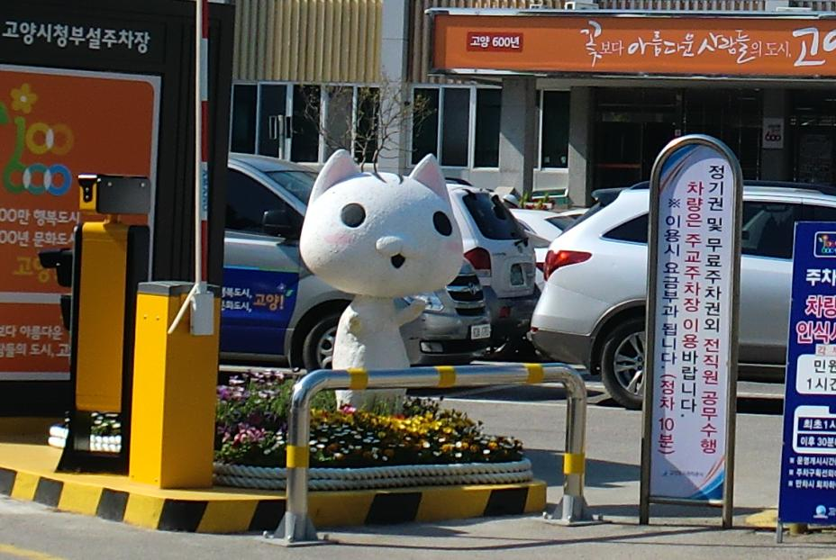 Goyang goyangi (The Goyang Cat), the official mascot of Goyang city, Korea.